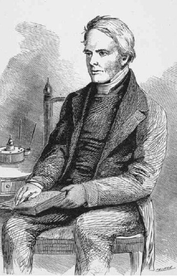 John Keble (* 25. April 1792 in Fairford (Gloucestershire); † 29. März 1866 in Bournemouth)